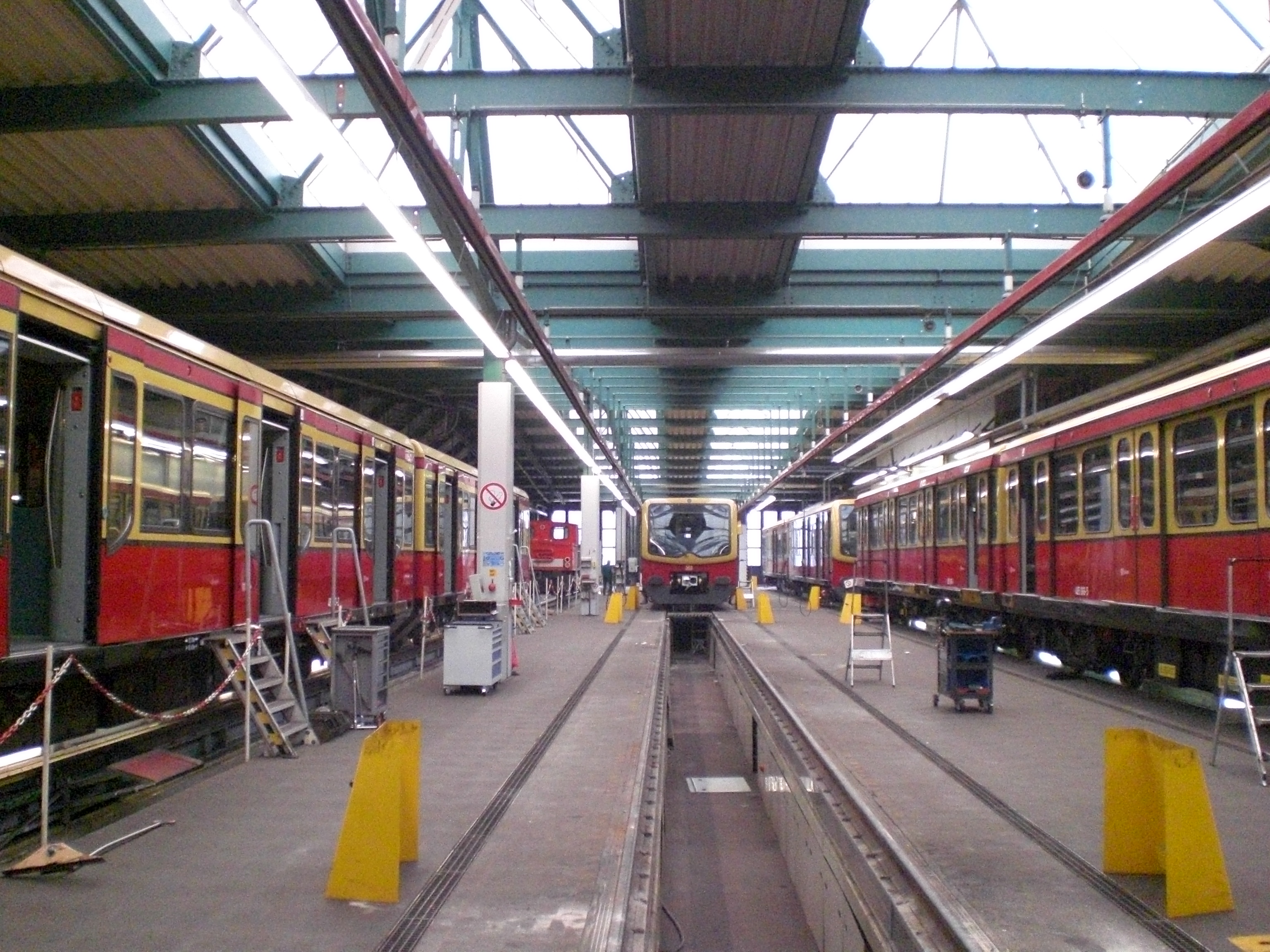 S-Bahn Berlin maintenance workshop in Berlin-Schöneweide